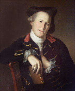 Half-length portrait shows Mordecai Gist: man seated in side chair, holding book in right hand, his left hand inside jacket. He wears tricornered hat and Revolutionary War uniform of blue coat with gold braid and red collar. Image has beige-brown background.